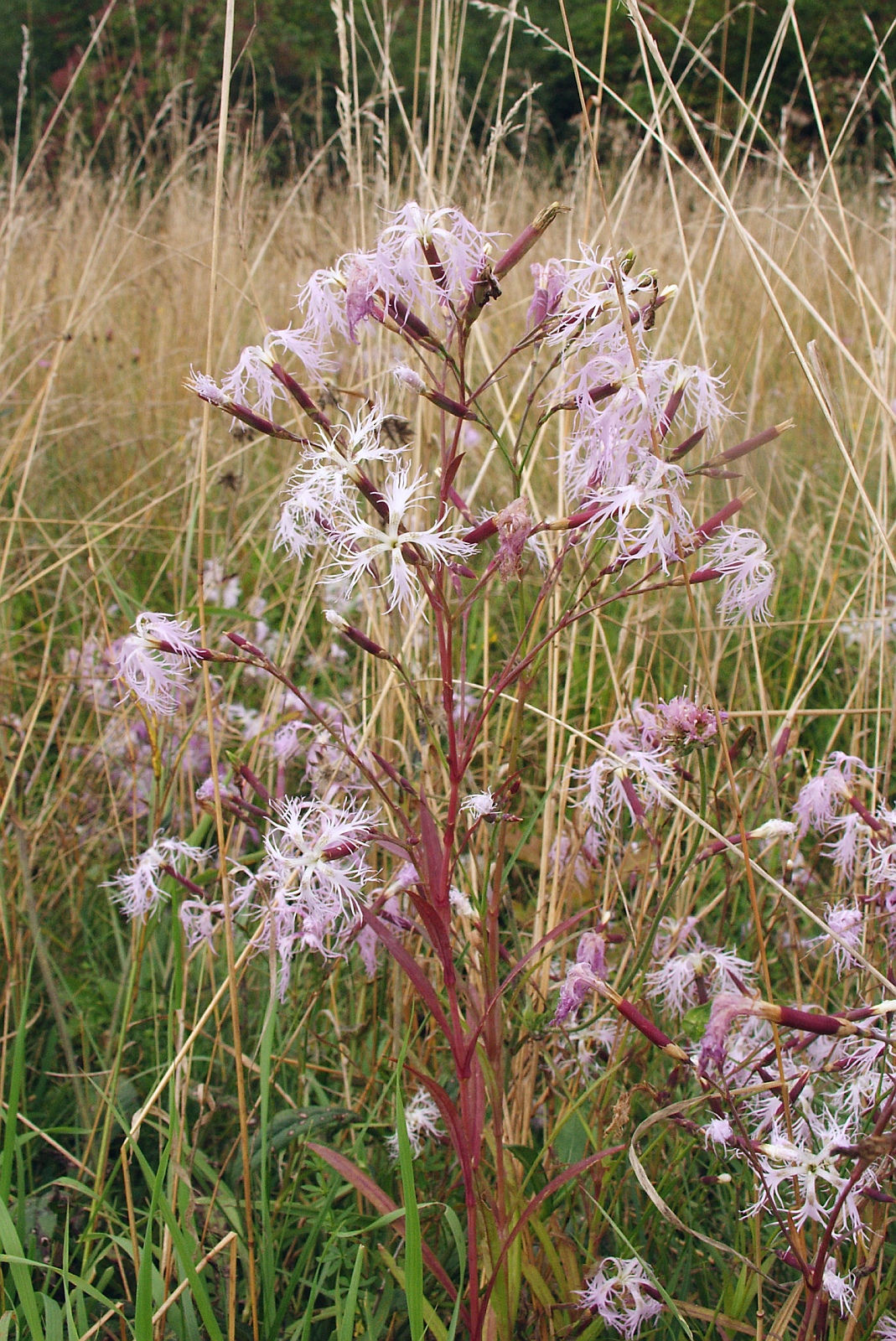 Dianthus superbus, northern Baden-Württemberg, Germany